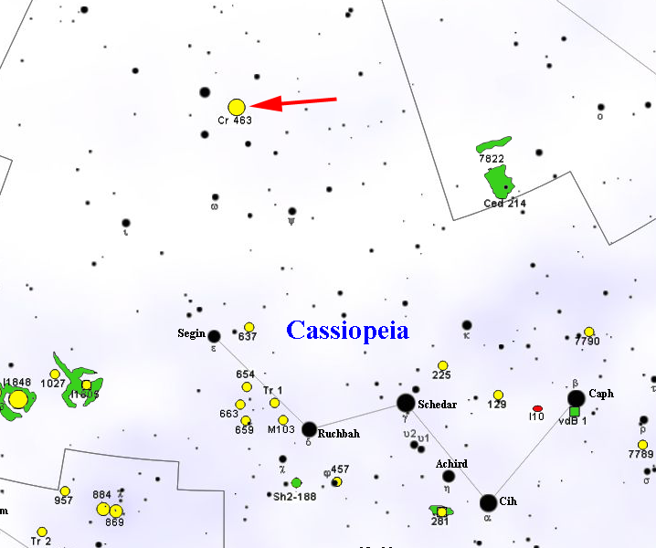 Map of Collinder 463